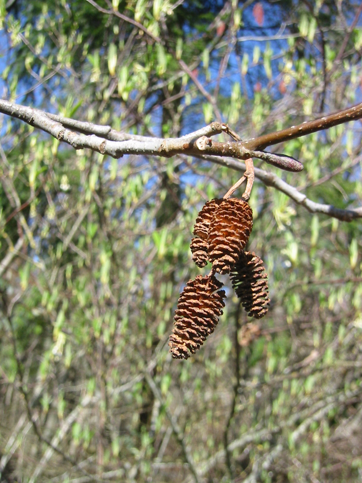 Red Alder female catkins from previous season.